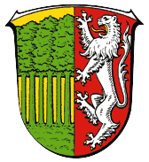 Coat of Arms of Flörsbachtal